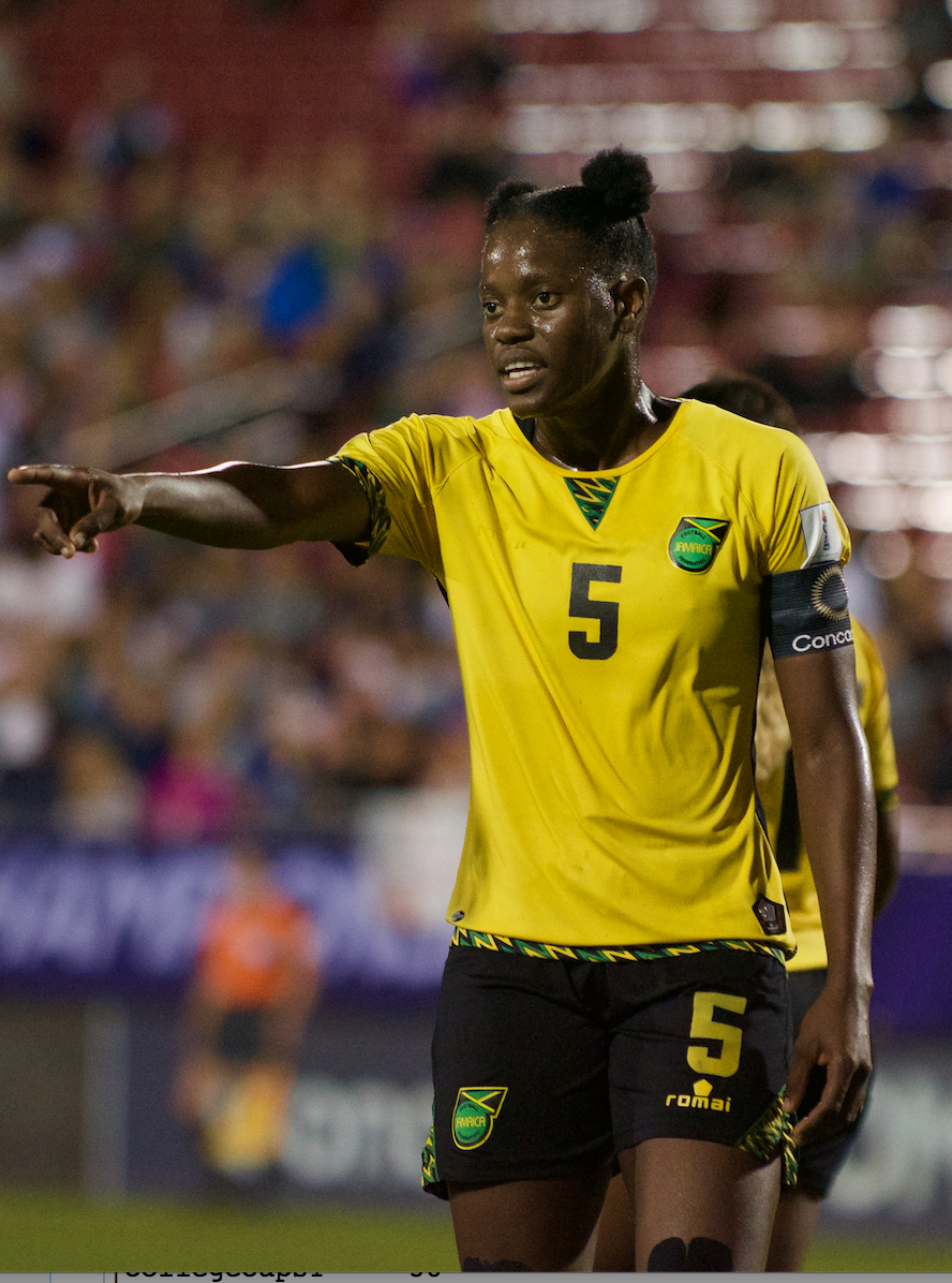 CWC 2018